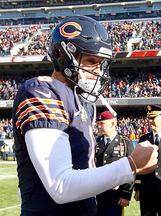 Chicago Bears quarterback, Jay Cutler, before the start of a game against the Denver Broncos on November 22, 2015.